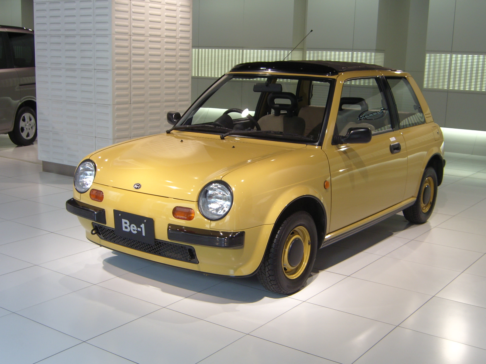 Nissan Be-1 finished in Pumpkin Yellow